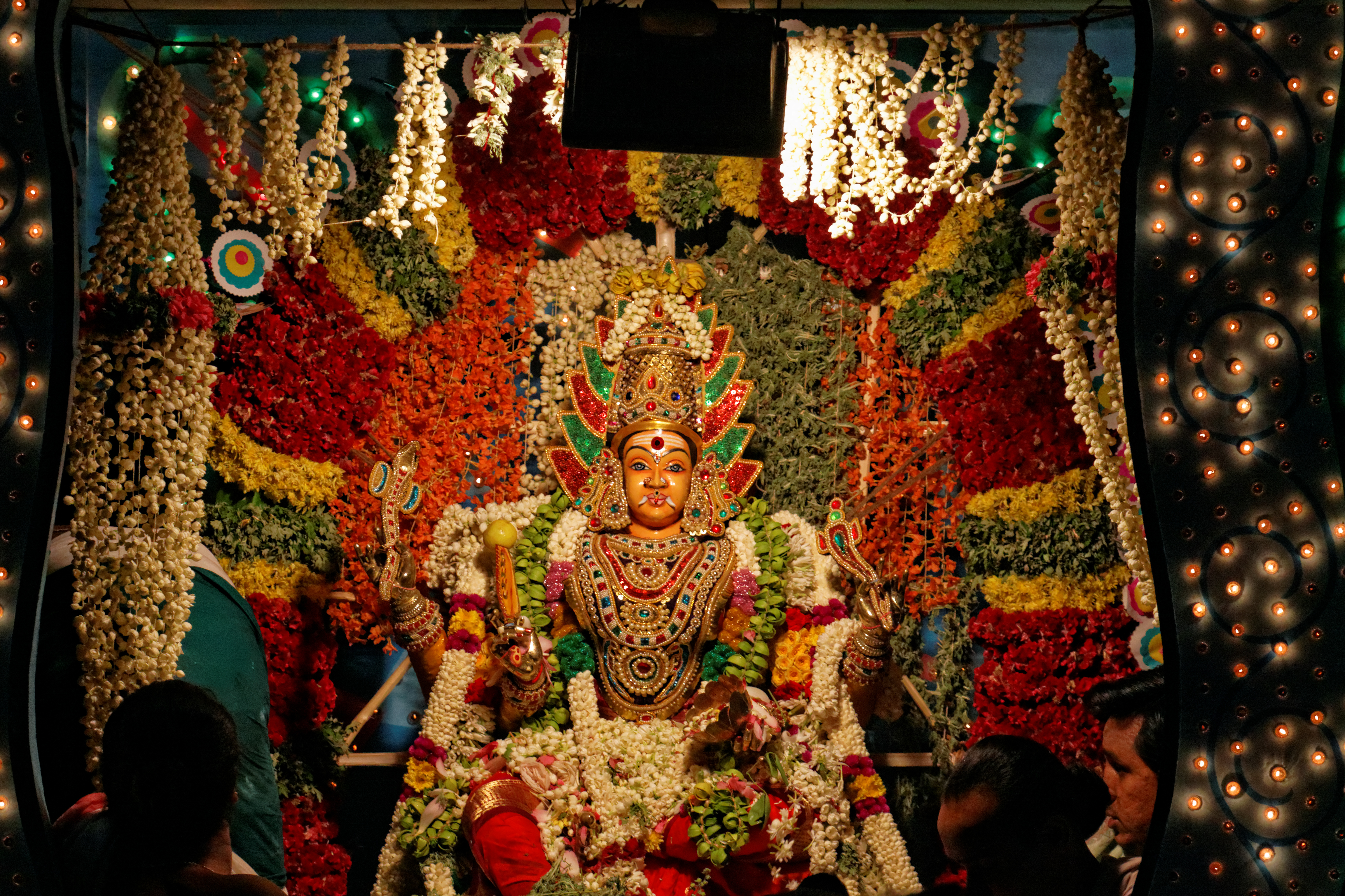 Mariamman's Procession, Madurai, March 2013